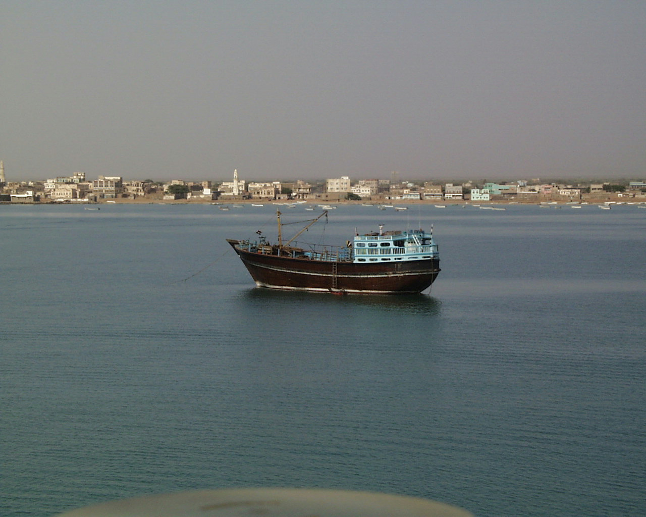 Mocha Red Sea